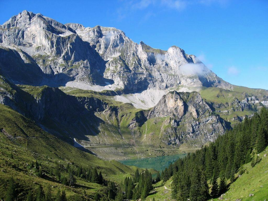 Bannalpsee, above Wolfenschiessen, Switzerland